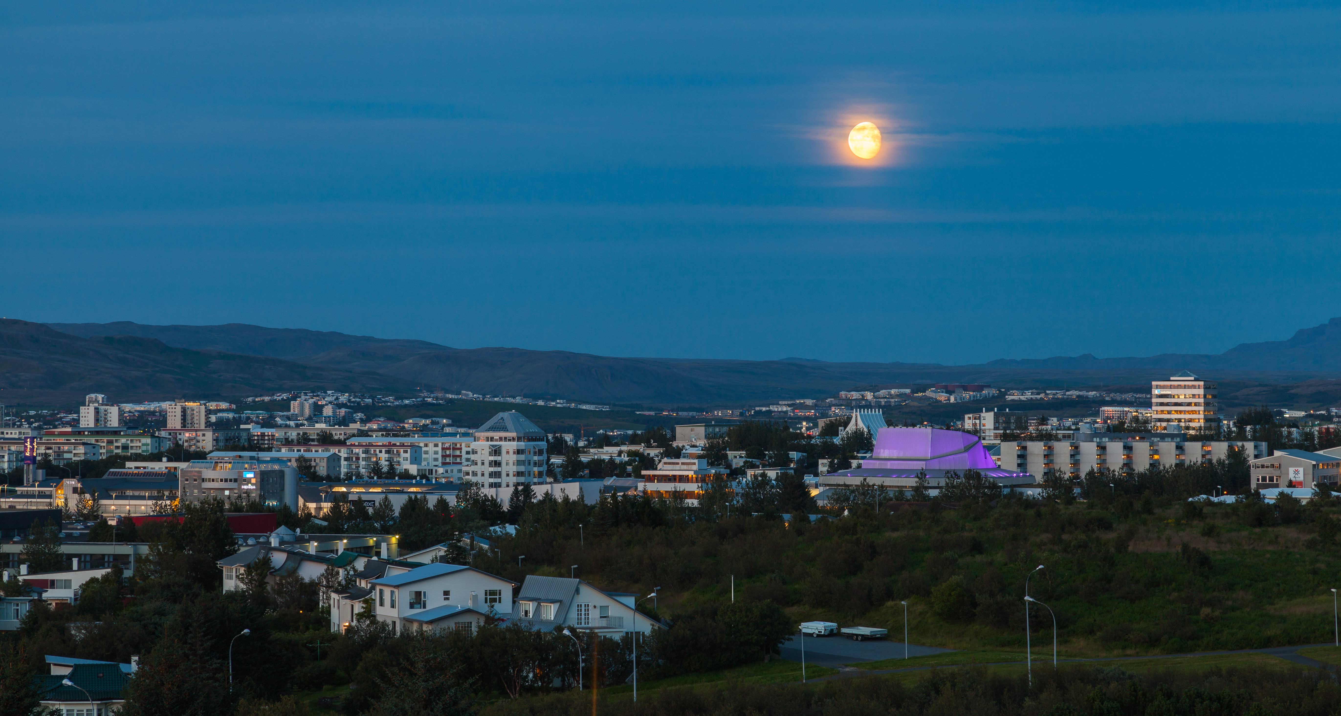 View of Reykjavik from Perlan, Capital Region, Iceland